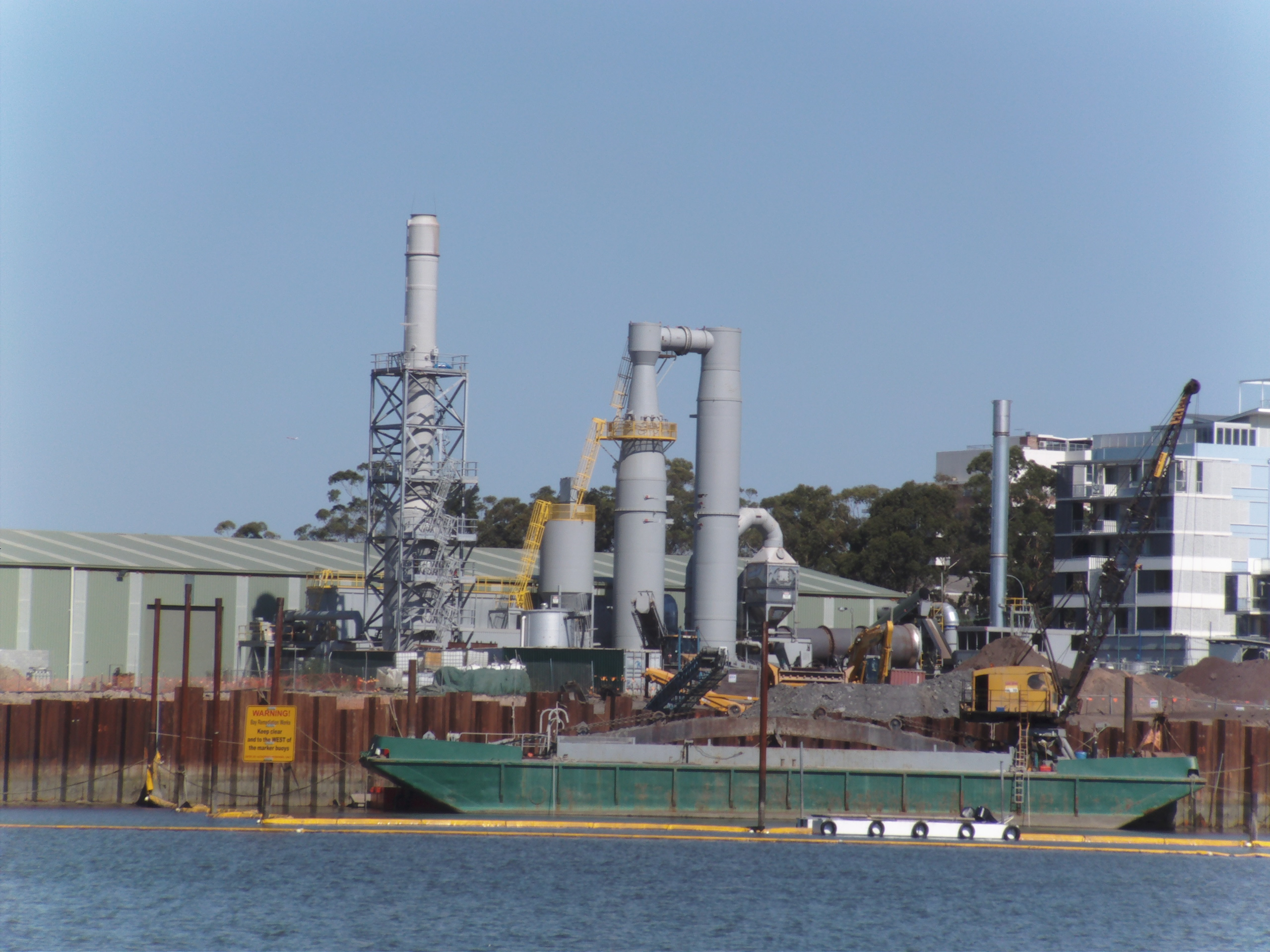 Remediation of the former Union Carbide Australia Limited herbicide and pesticide plant at Rhodes, New South Wales. Taken looking East from Homebush Bay (suburb) across Homebush Bay, part of the Parramatta River. The barge at the foreshore is being used to carry contaminated sediment for remediation. Dioxins are the main chemical of concern in the bay. They were responsible for a total commercial fishing ban in Sydney Harbour for about 3 years, a commercial fin fishing ban west of the Gladesville Bridge for about 20 years and a total ban on fishing in Homebush Bay which remains in place after about 3 decades (as at 2009). The machinery in the background is a direct thermal desorber and thermal oxidiser - an incinerator. for more information. The units on the right are on the former Union Carbide Glad factory and are on the southern side of Gauthorpe Street and western side of Marquet Street.